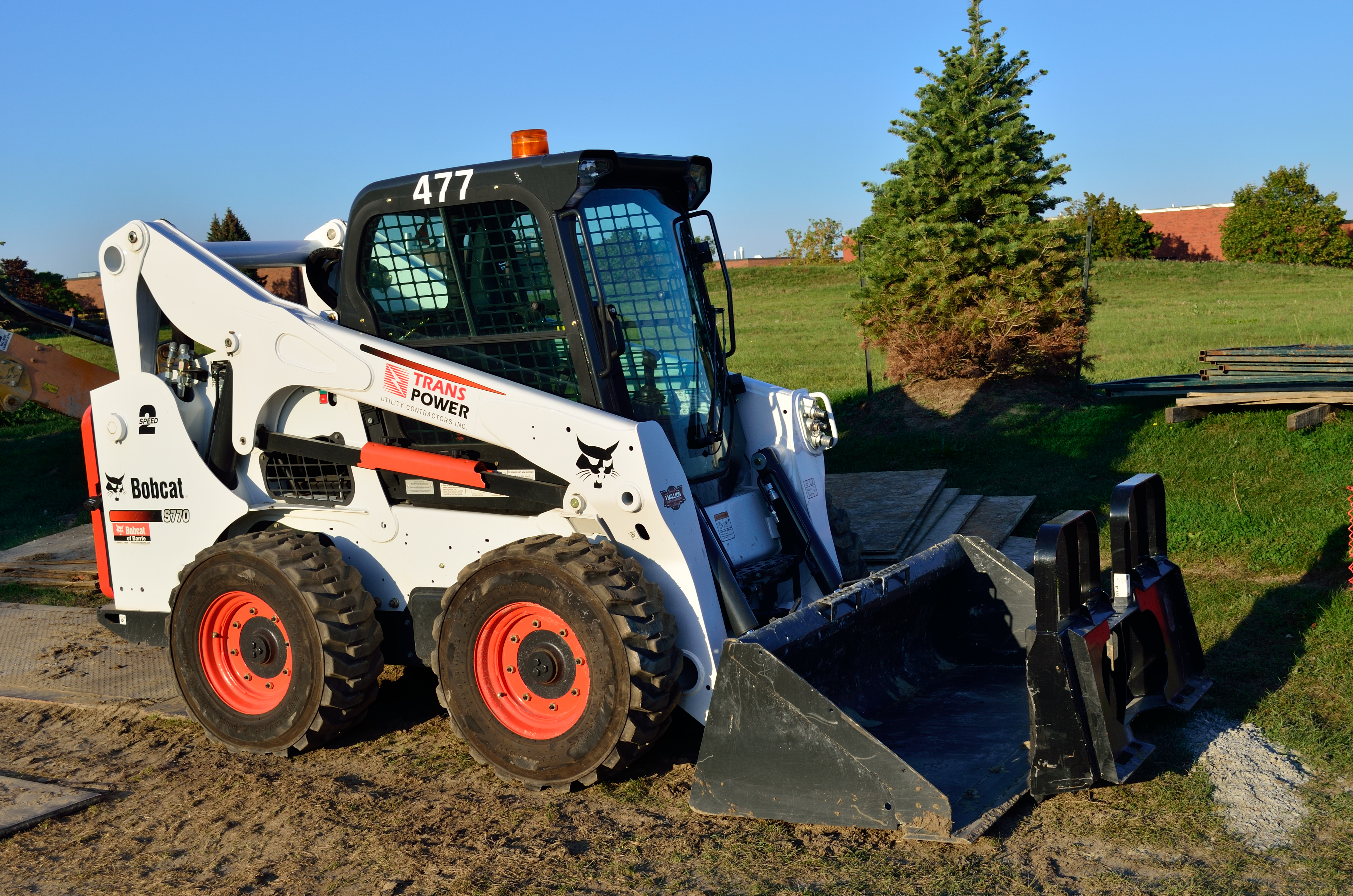 Bobcat S770 skid-steer loader